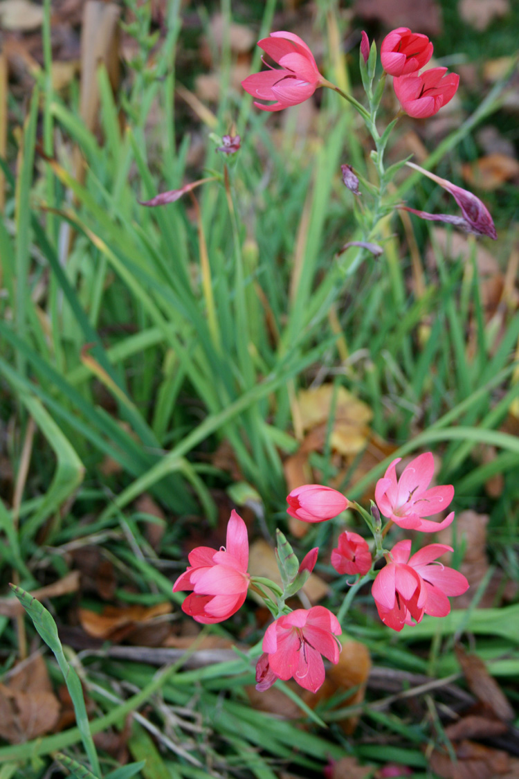 unknown flower, photographed in Plattfields park, Manchester (UK)